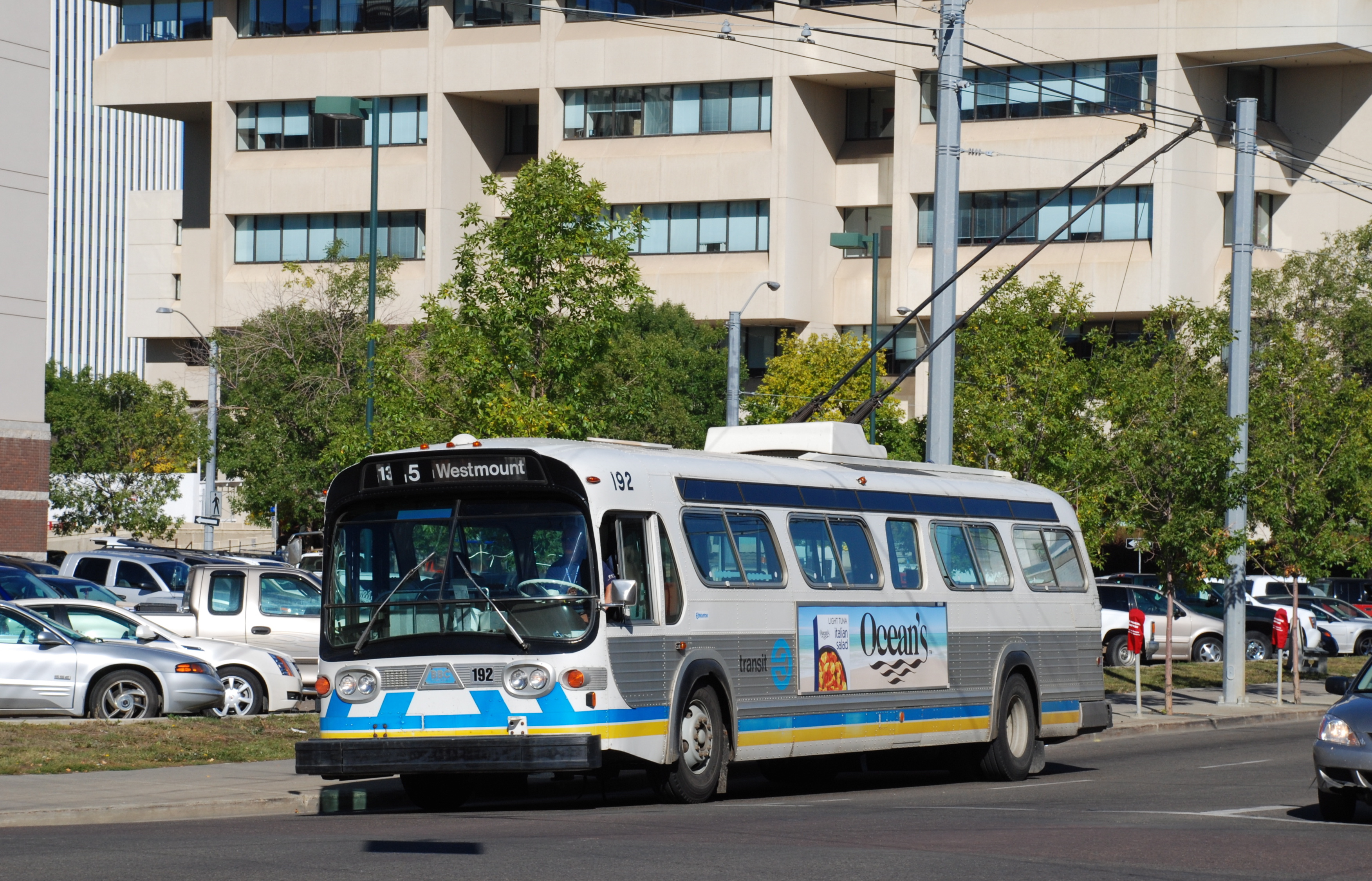 Edmonton trolleybus 192 was built in by 1982 by Brown Boveri Canada, Inc., a division of the Swiss company Brown, Boveri & Cie (BBC), but using a General Motors body and chassis supplied under subcontract to BBC. It was one of 100 such vehicles built for Edmonton Transit System and which were the only trolleybuses ever built in GM's "New Look" style, introduced in 1959. In this photo, No. 192 is southbound on 97th Street at 102nd Avenue, on route 135.